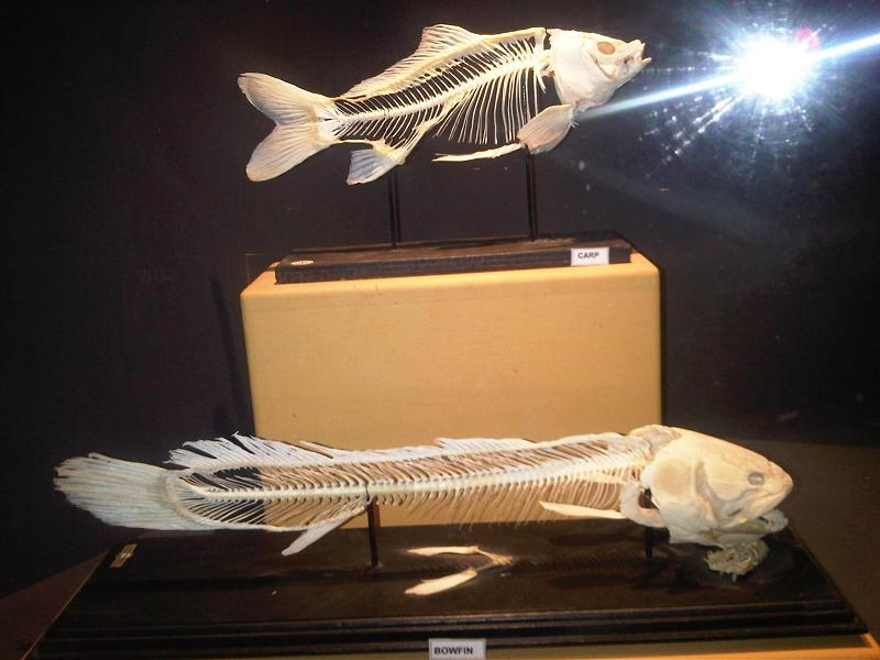 Above common carp (Cyprinus carpio) and below bowfin (Amia calva) skeletons, at the National Museum of Natural History, Vilhena Palace, Republic of Malta.